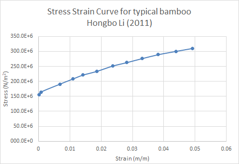 stress strain curve of typical bamboo based on Hongbo Li